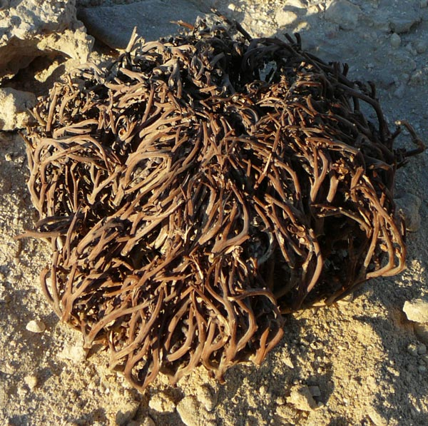 Anastatica hierochuntica, largest diameter: 22 cm, Hurghada/Egypt, November 2006